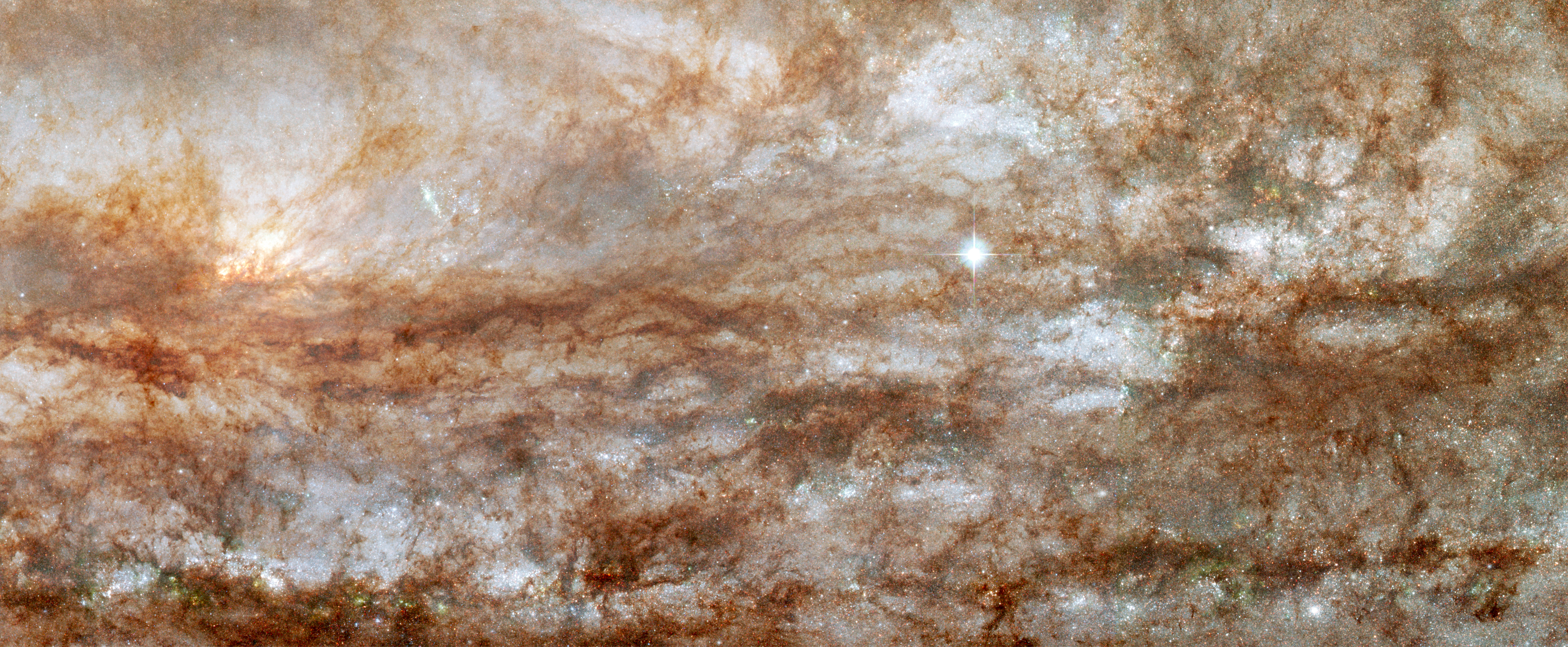 A portion of the spiral galaxy the Sculptor Galaxy (NGC 253) as viewed by the Hubble Space Telescope. NGC 253 is ablaze with the light from thousands of young, blue stars. The spiral galaxy is undergoing intense star formation. The image demonstrates the sharp "eye" of the Advanced Camera, which resolved individual stars. The dark filaments are clouds of dust and gas. NGC 253 is the dominant galaxy in the Sculptor Group of galaxies and it resides about 13 million light-years from Earth.